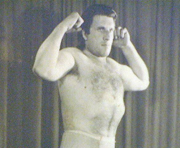 Antonio Barichievich moved to Canada in 1946, when he was 21 years old. (CBC)